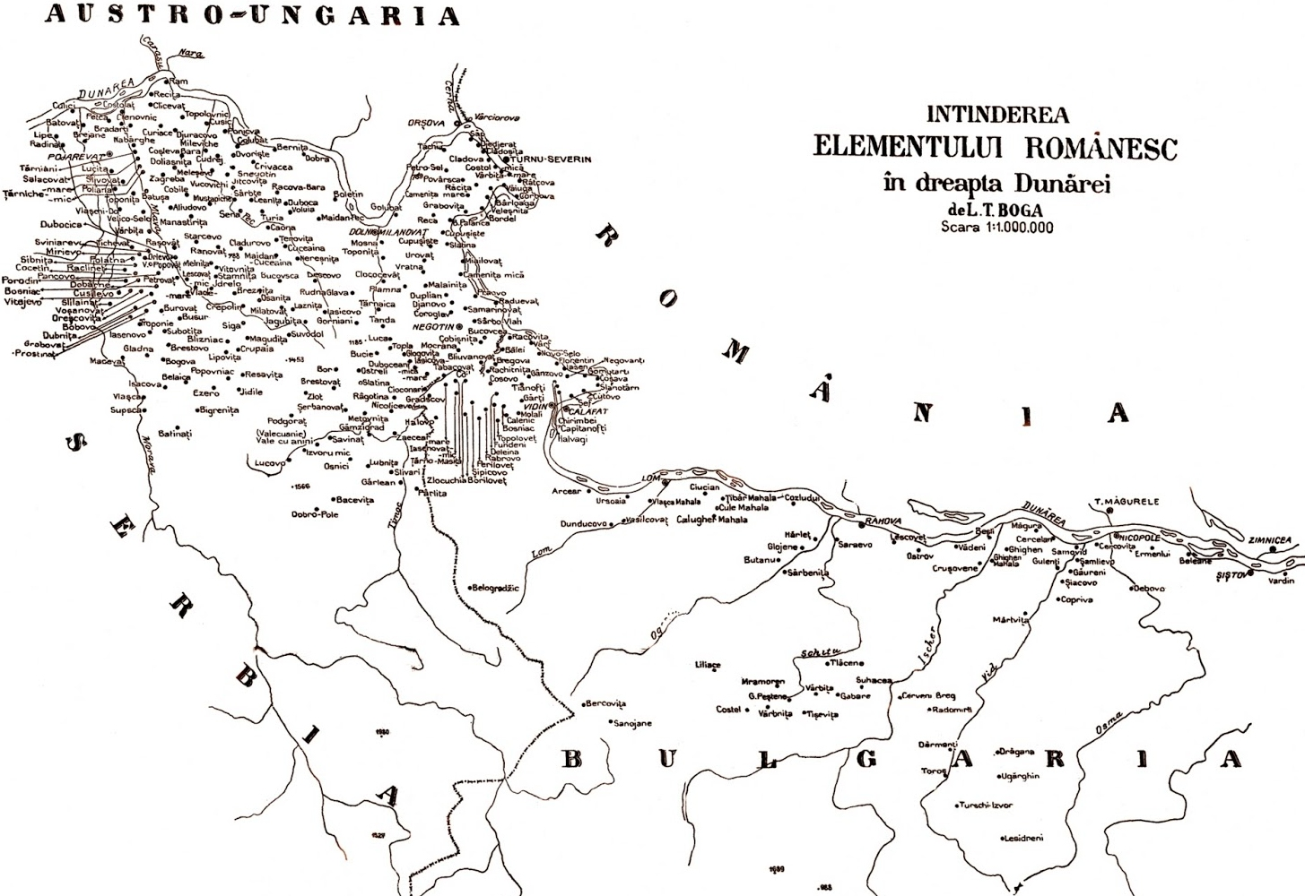 Distribution of Romanians in Serbia and Bulgaria in 1910.